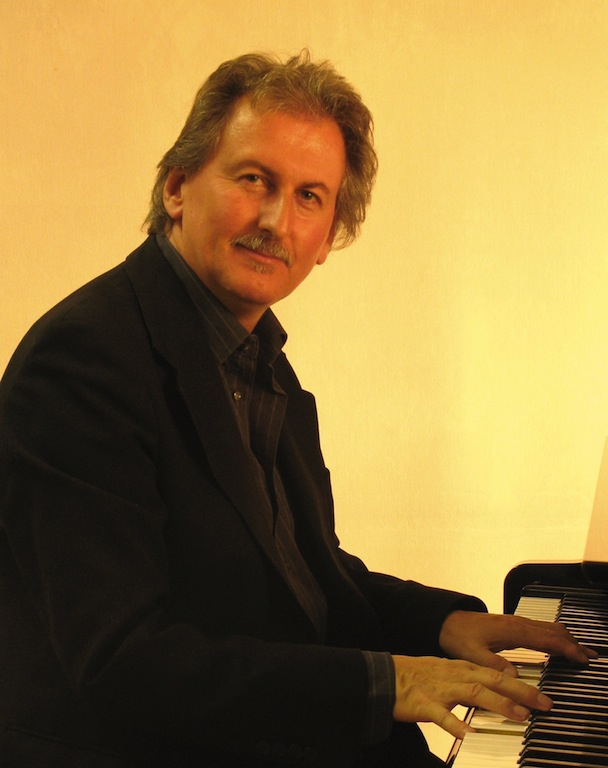 Gerhard Gruber - Silent Movie Pianist - Wels - Austria